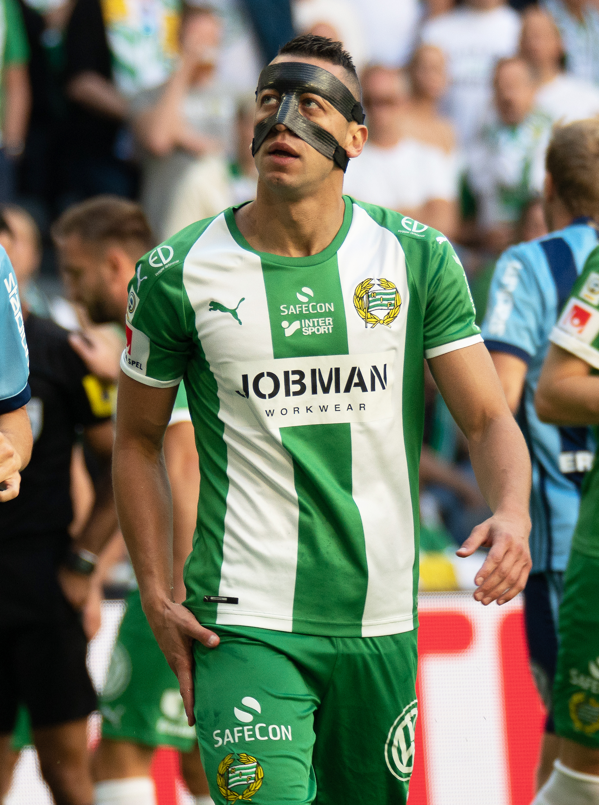 Nikola Djurdjic playing for Hammarby.